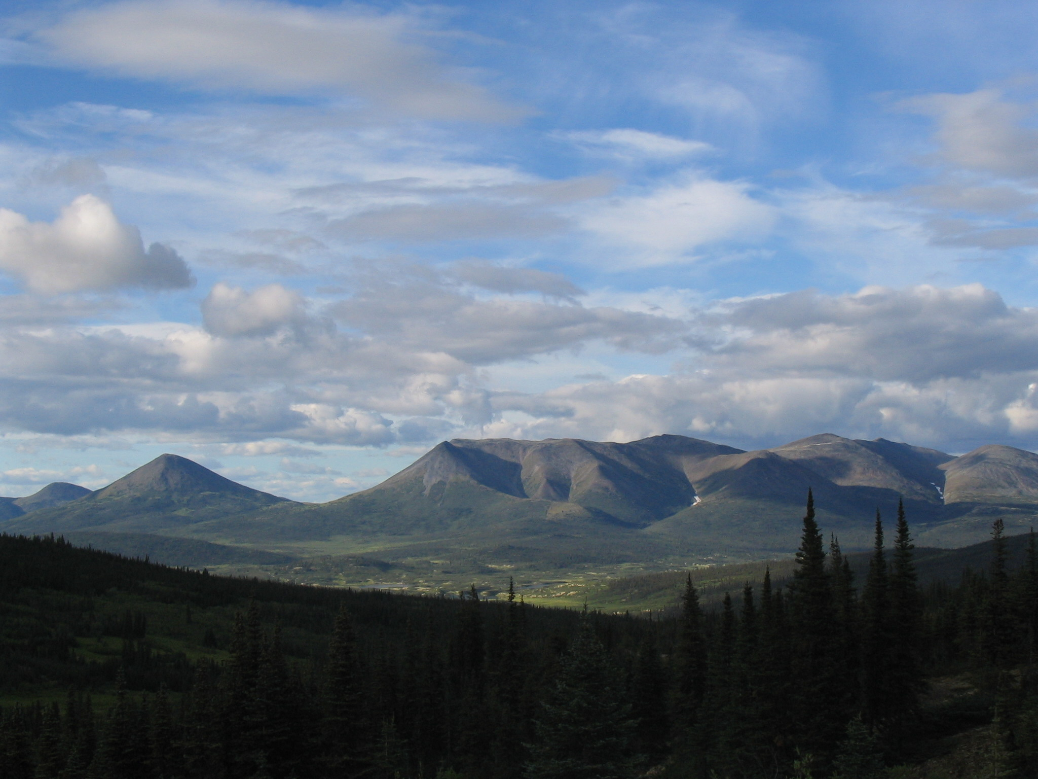 Mountain, sky, light and shadow. Location Howard's Pass, Yukon Territory, Canada.Summer. Northern mountain.Remote location.Near North West Territory. Nahanni National Park.